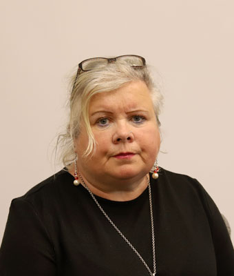 Irish politician Patricia Ryan of Sinn Féin, taken in 2020